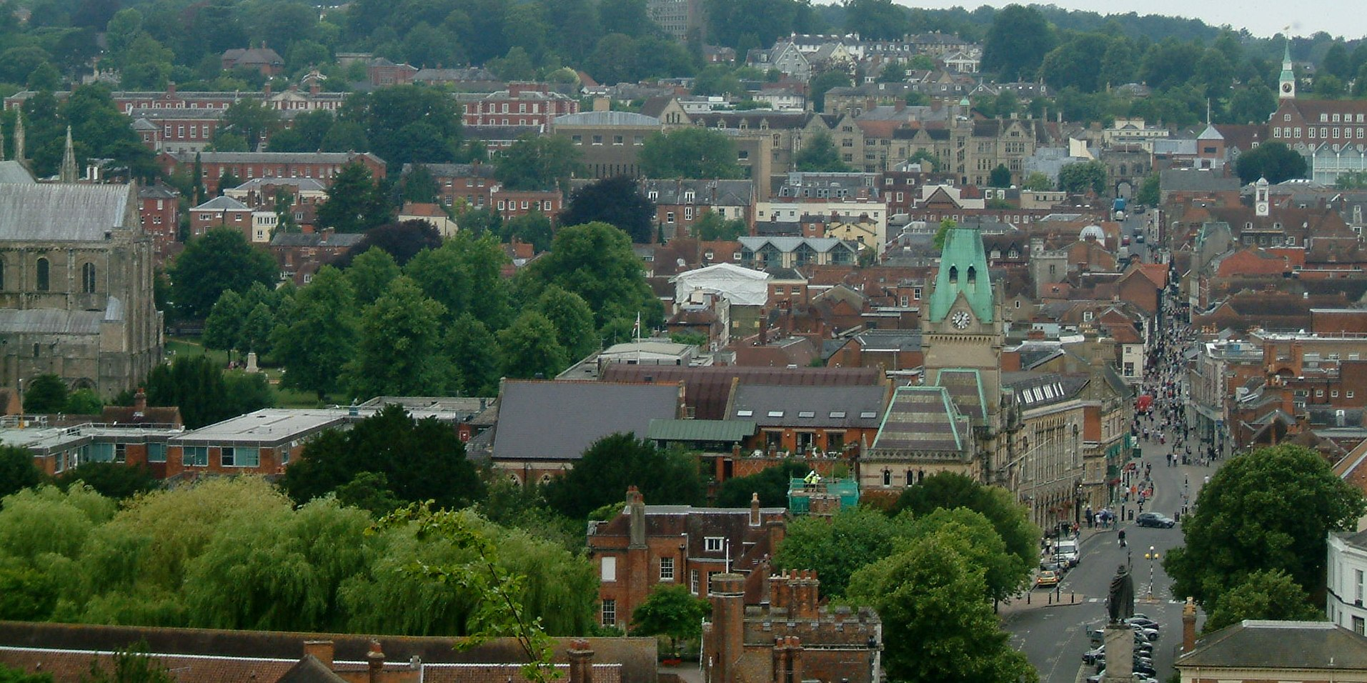 Broadway, Winchester, Hampshire, from St Giles' Hill